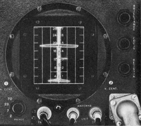 This image shows a typical "L-scope" radar display. This example is taken from the ASB radar system, used by US Navy aircraft to search for ships on the ocean. The equivalent UK designs are known as ASV and first introduced this style of radar display. The L-scope is a modified version of the original A-scope display, showing the returns of the same signal as seen from two antennas. This allows the signal strength of the two images to be compared directly by examining the length of the "blip" on either side of the centreline, the target would be positioned closer to the antenna receiving the stronger return. This image shows two target blips, one at about 4.75 miles range and another at about 3 miles. The closer target is smaller, which accounts for the shorter blip in spite of it being closer. It is also seen only on the right side of the display, indicating that the target is located far to the right of the aircraft. The further target is larger and centred dead ahead. The centreline is not sharp due to the presence of noise, which was known as "grass" in US parlance. The triangular shaped blip at the very bottom of the screen is caused by reflections off the ocean surface, and obscure targets as the aircraft approaches within several miles.